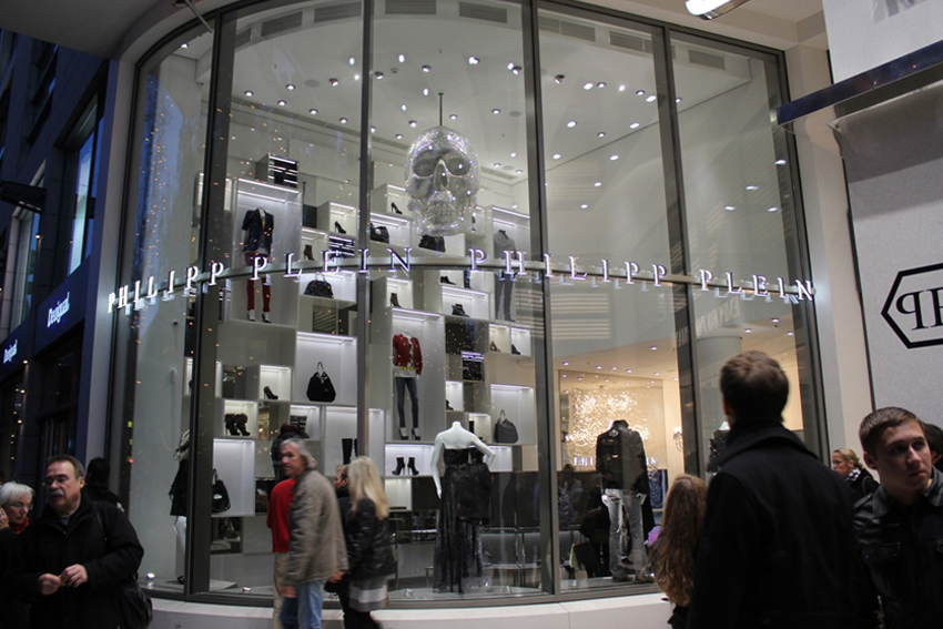 Philipp Plein Flagshipstore Düsseldorf